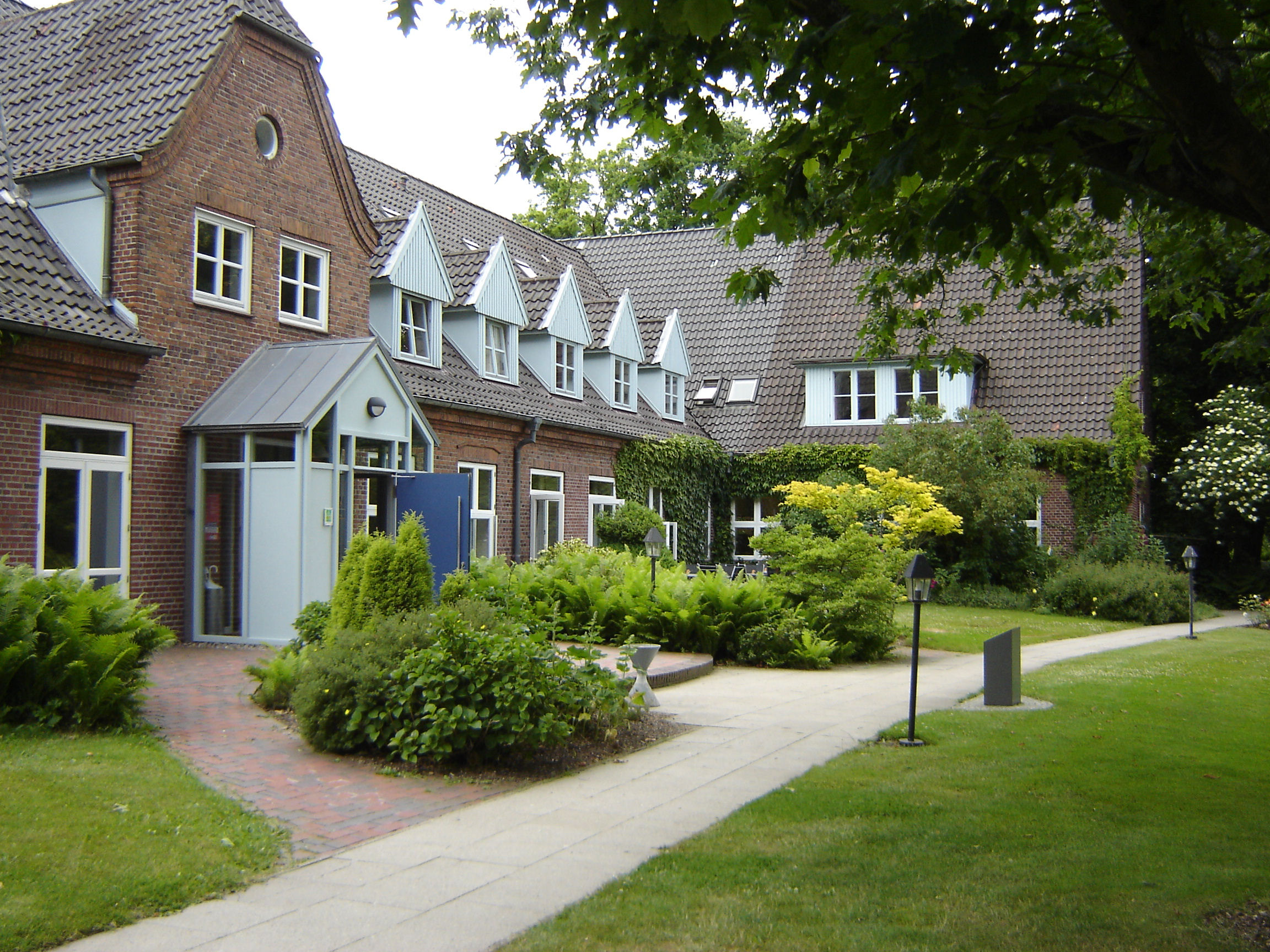 Nordsee Akademie in Leck (Nordfriesland), Germany